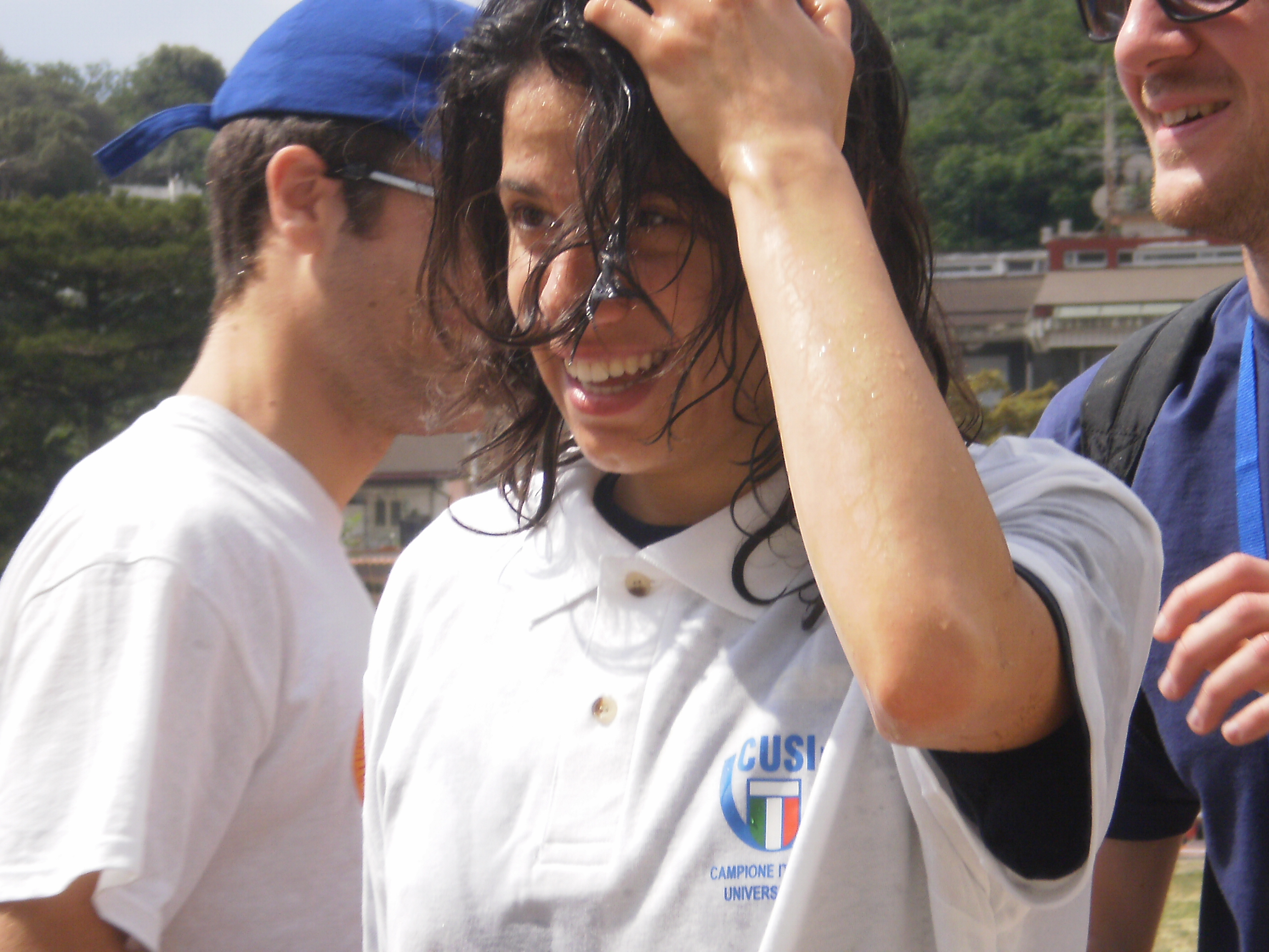 Director Teresa Di Loreto at Messina in 2012